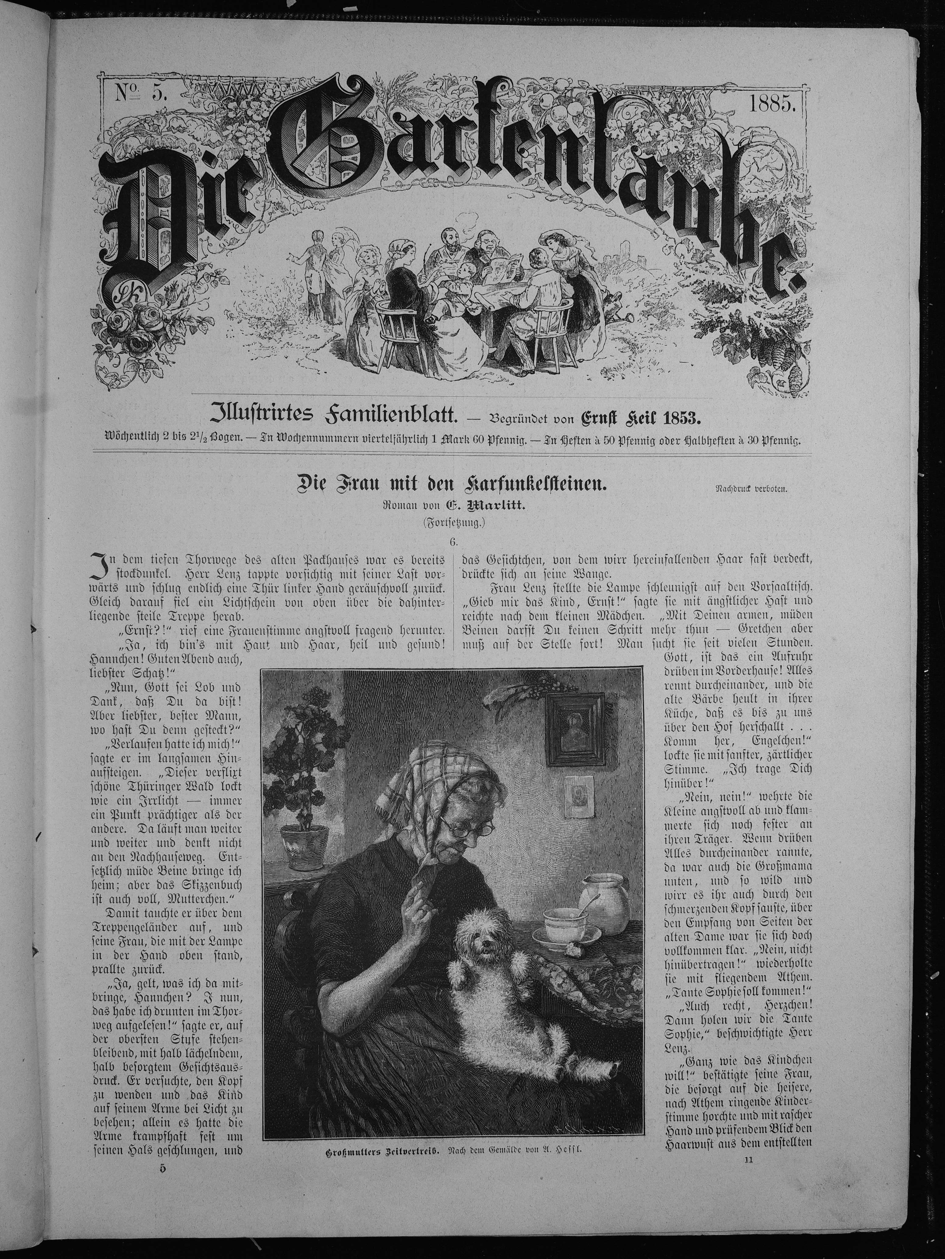 Page 73 from journal Die Gartenlaube for 1885. Extracted image (if any): File:Die Gartenlaube (1885) b 073.jpg - hi res, ~2.5 MB.